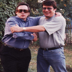 British DJ Tommy Vance (left) with friend Geg Hopkins at Hopkins' residence.